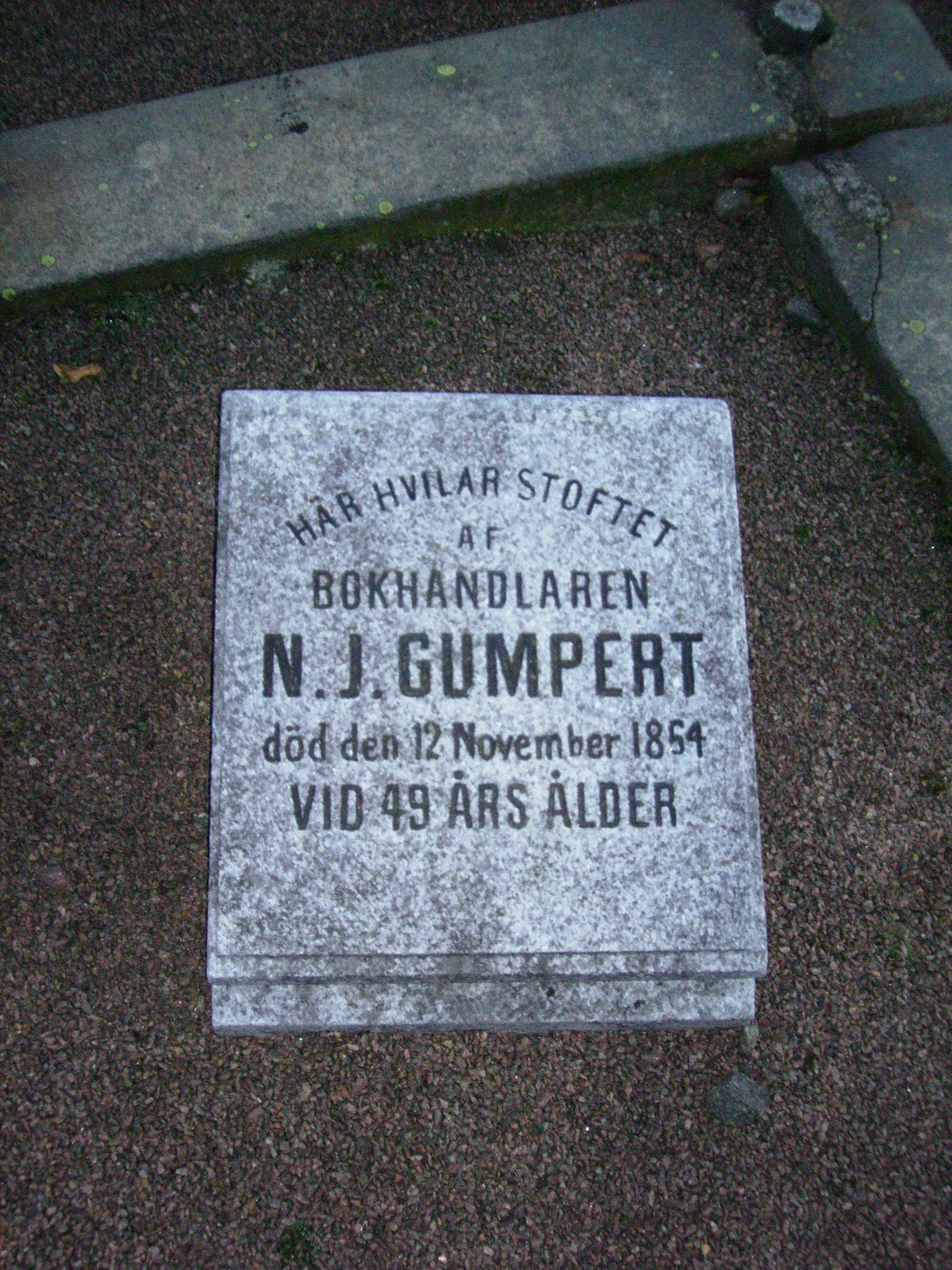 N J Gumperts grave in Gothenburg